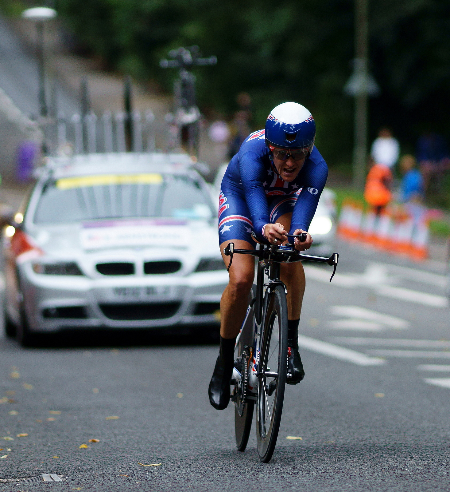 U.S.A. rider Kristin Armstrong, seen in the Olympic Games 2012 time trial. Completing the 29k course in 37.34.82, Kristin successfully defended her Olympic title, with a victory margin in excess on 15 seconds. Seen passing Claremont Gardens, to the south of Esher.